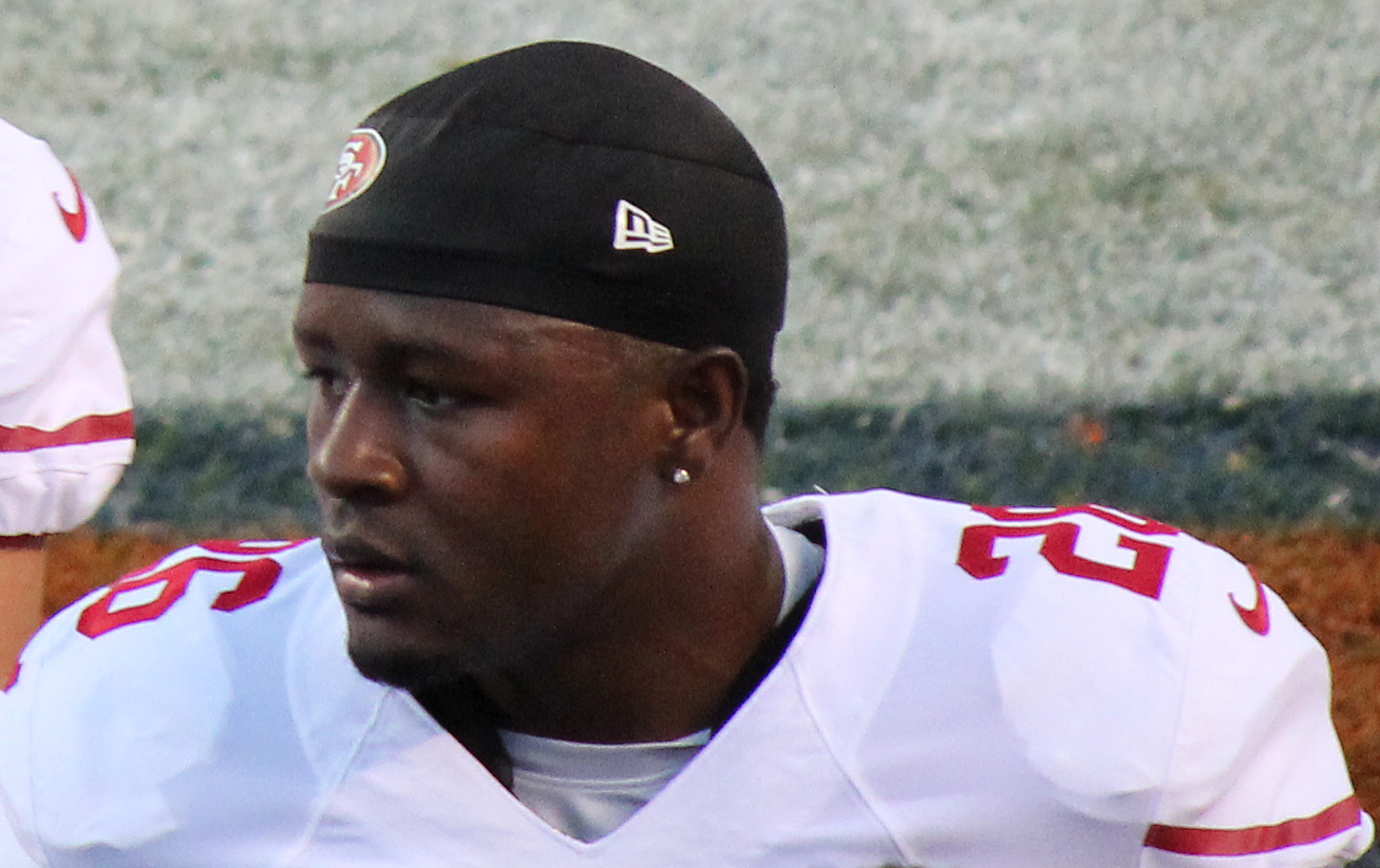 Tramaine Brock, a player on the National Football League.